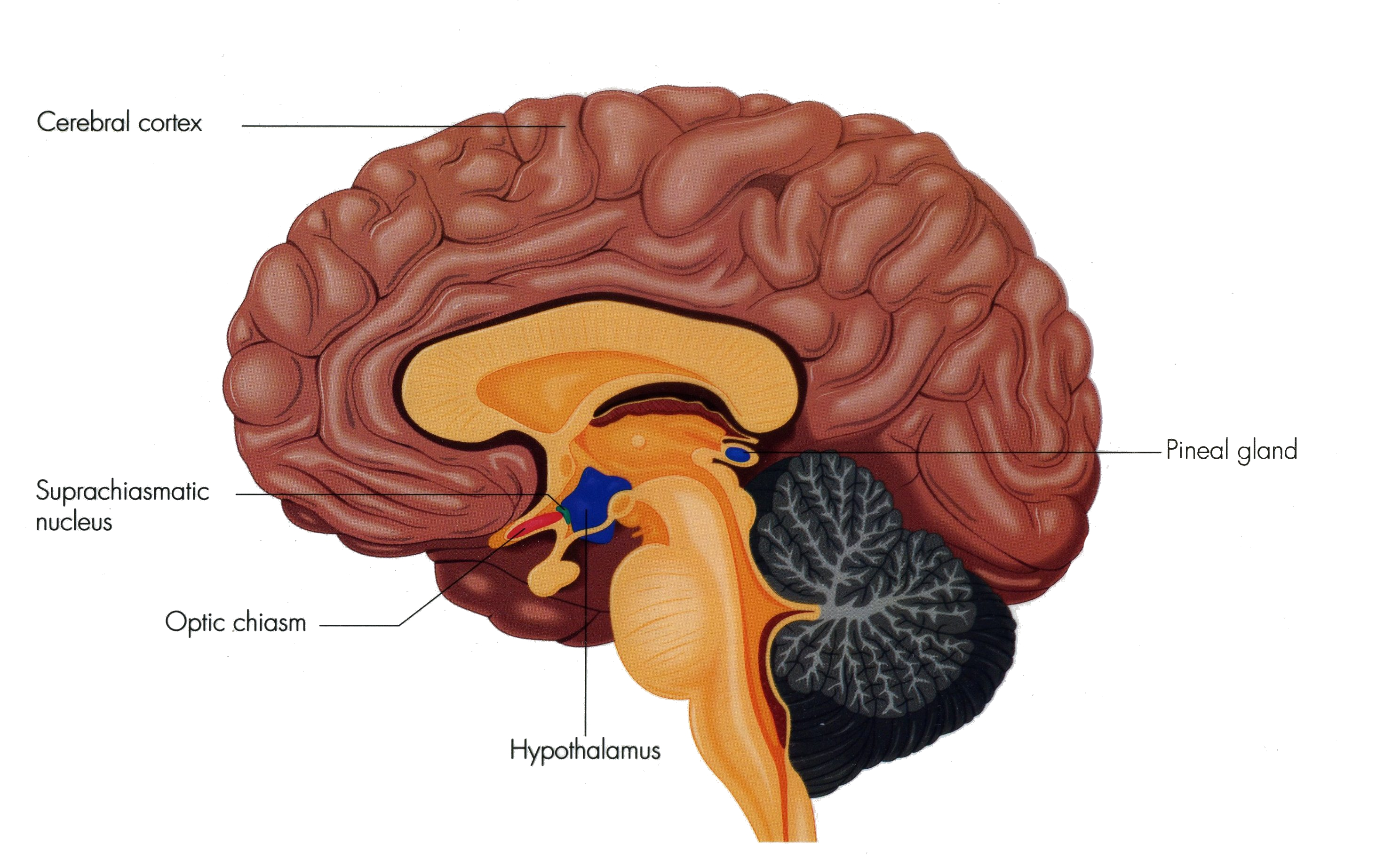 Illustration of the human brain showing the Cerebral Cortex, the Suprachiasmatic Nucleus, the Optic Chiasm, the Hypothalamus and the Pineal Gland